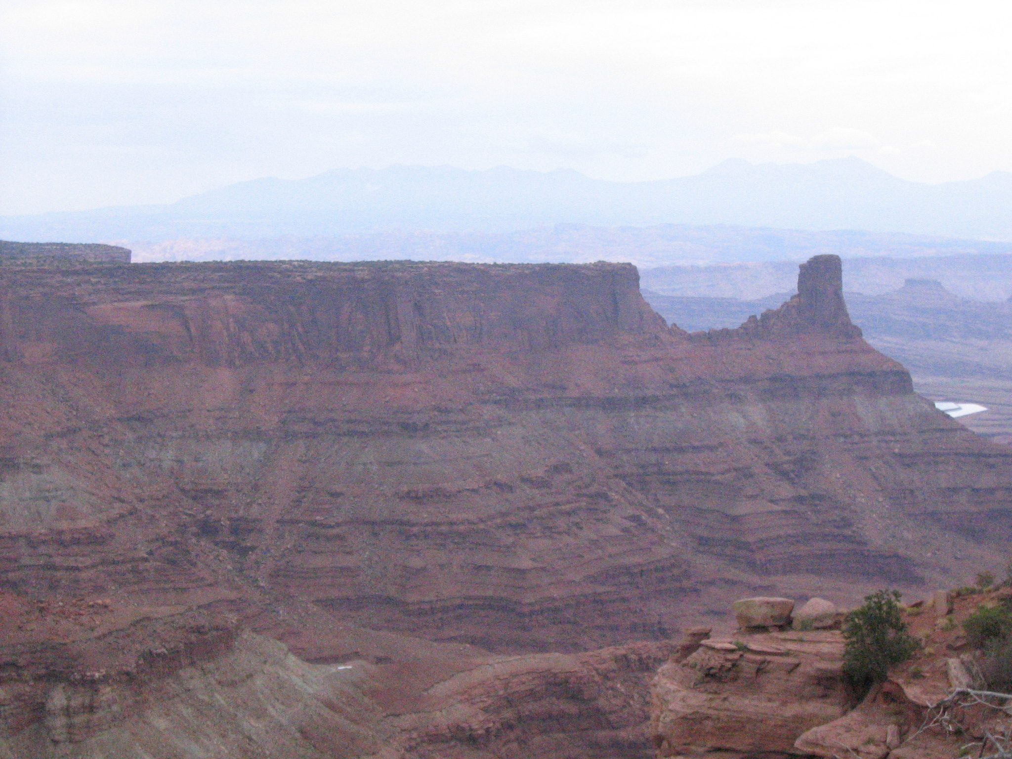 Dead Horse Point Moab. The cliffs are horizontal bedded cliffs of Kayenta Formation upon vertical cliffs of Wingate Sandstone. The slopes are Chinle Formation-(3 members only, in Canyonland NP), upon slopes of Moenkopi Formation-(4 units in Canyonlands).